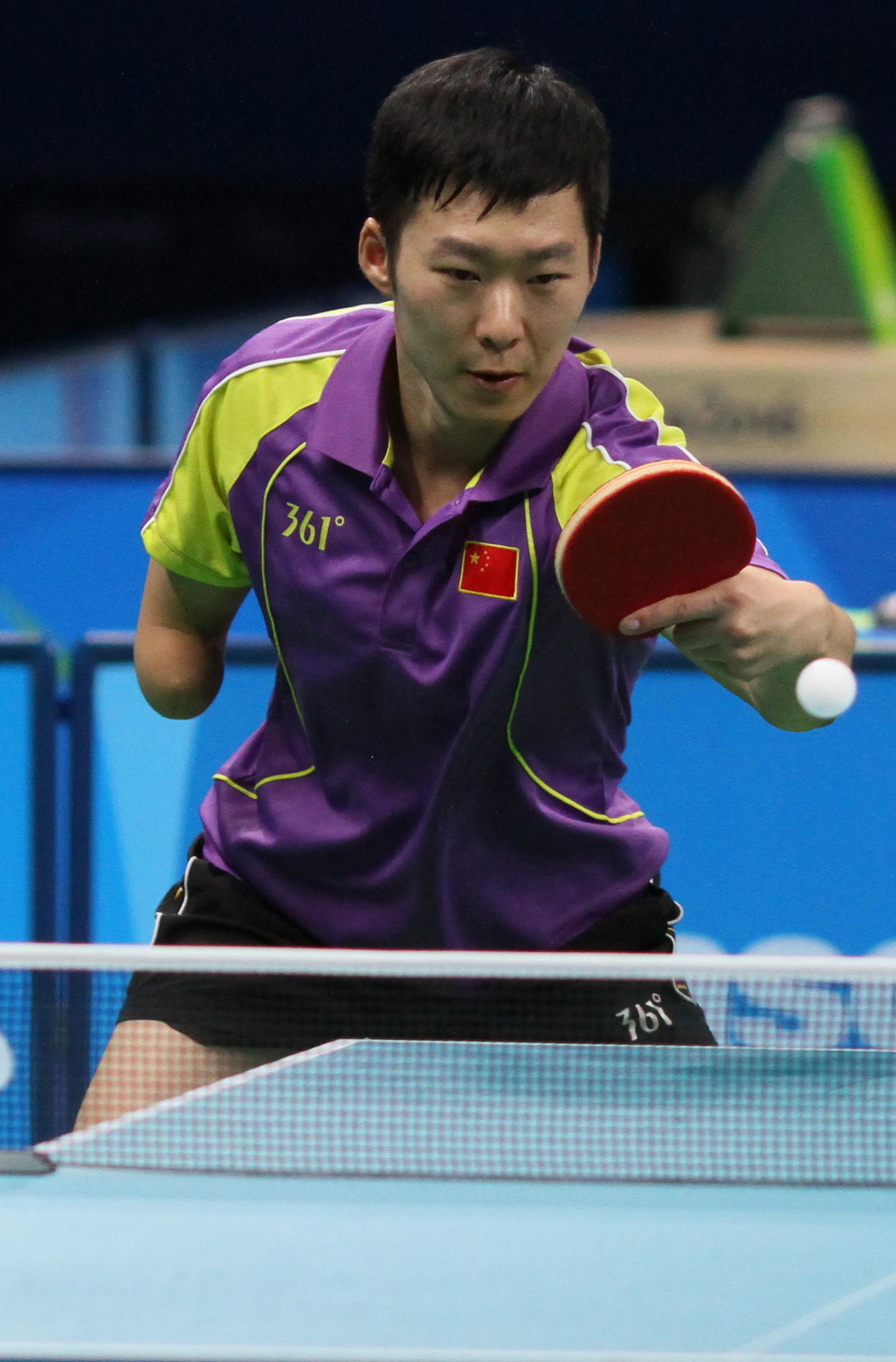 Ge Yang